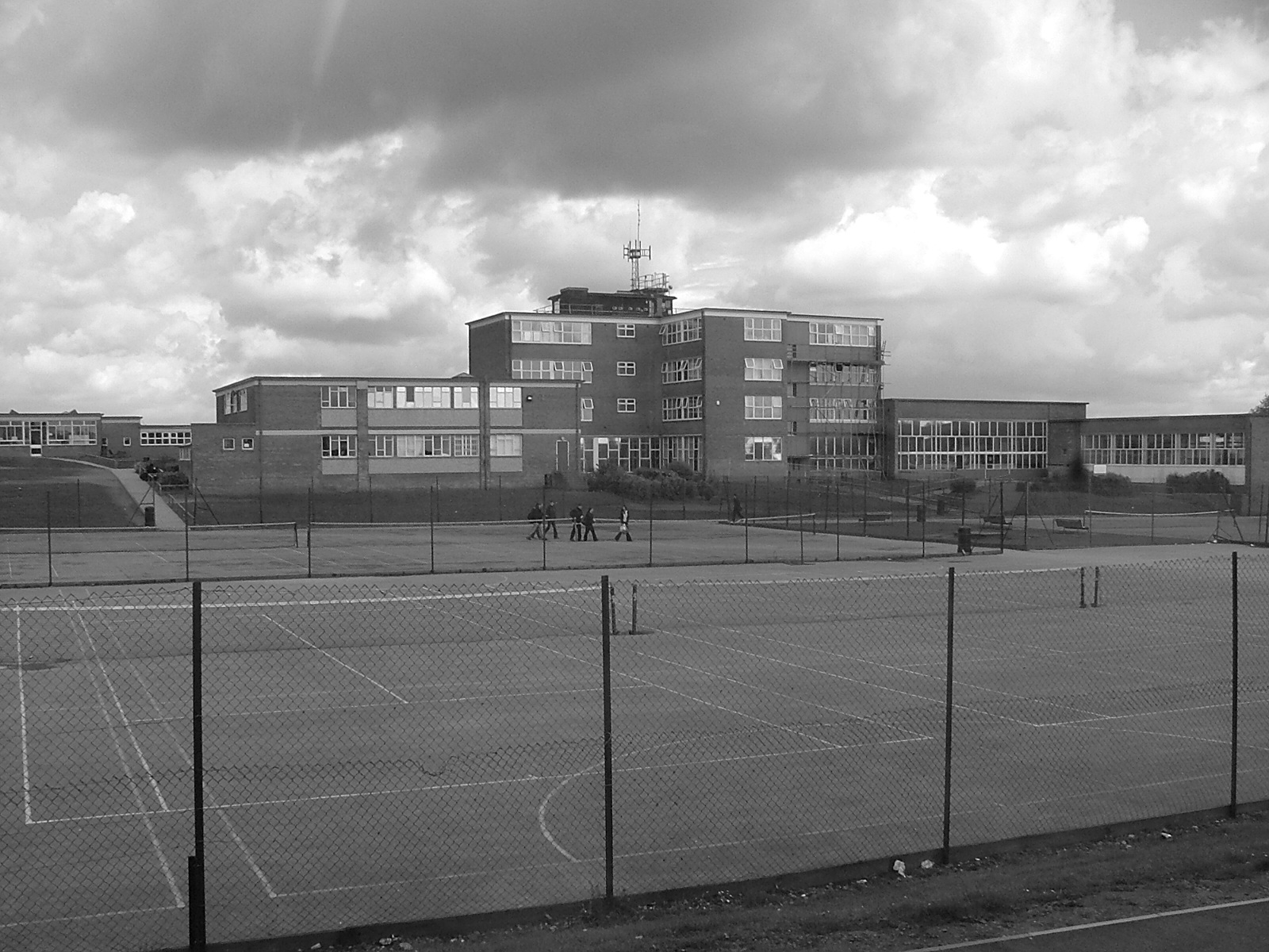 View of Bramcote Hills Comp Main School Building. Shows renovation work being carried out to the building with installation of new windows. Taken prior to the extention of the library, and renovation of tennis courts